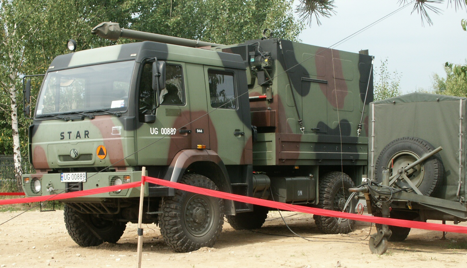 Polish Army Star 944 truck with communications equipment.